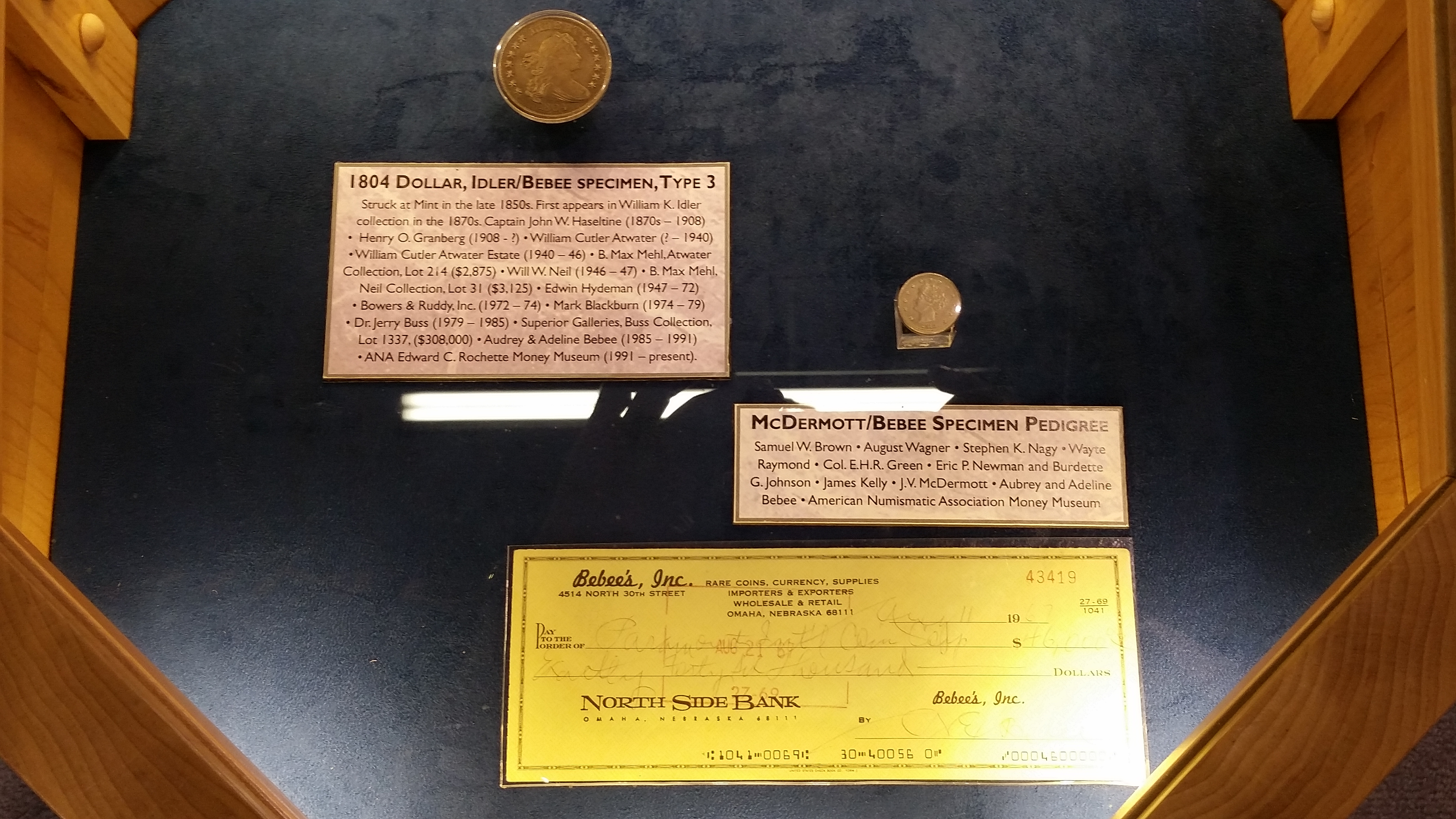 World's Fair of Money 2014 Donald E. Stephens Convention Center Rosemont, IL #ANAShows #WFM